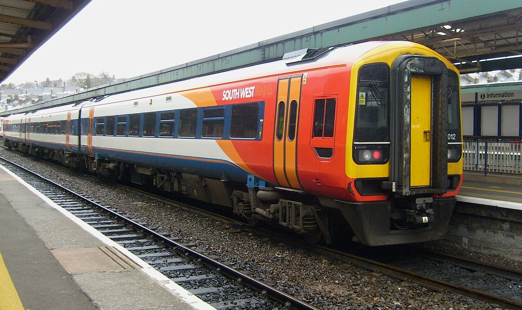 South West Trains refurbished Class 159/0 No. 159012 at Plymouth. Since the December 2009 timetable change, unfortunately South West Trains no longer operate west of Exeter.